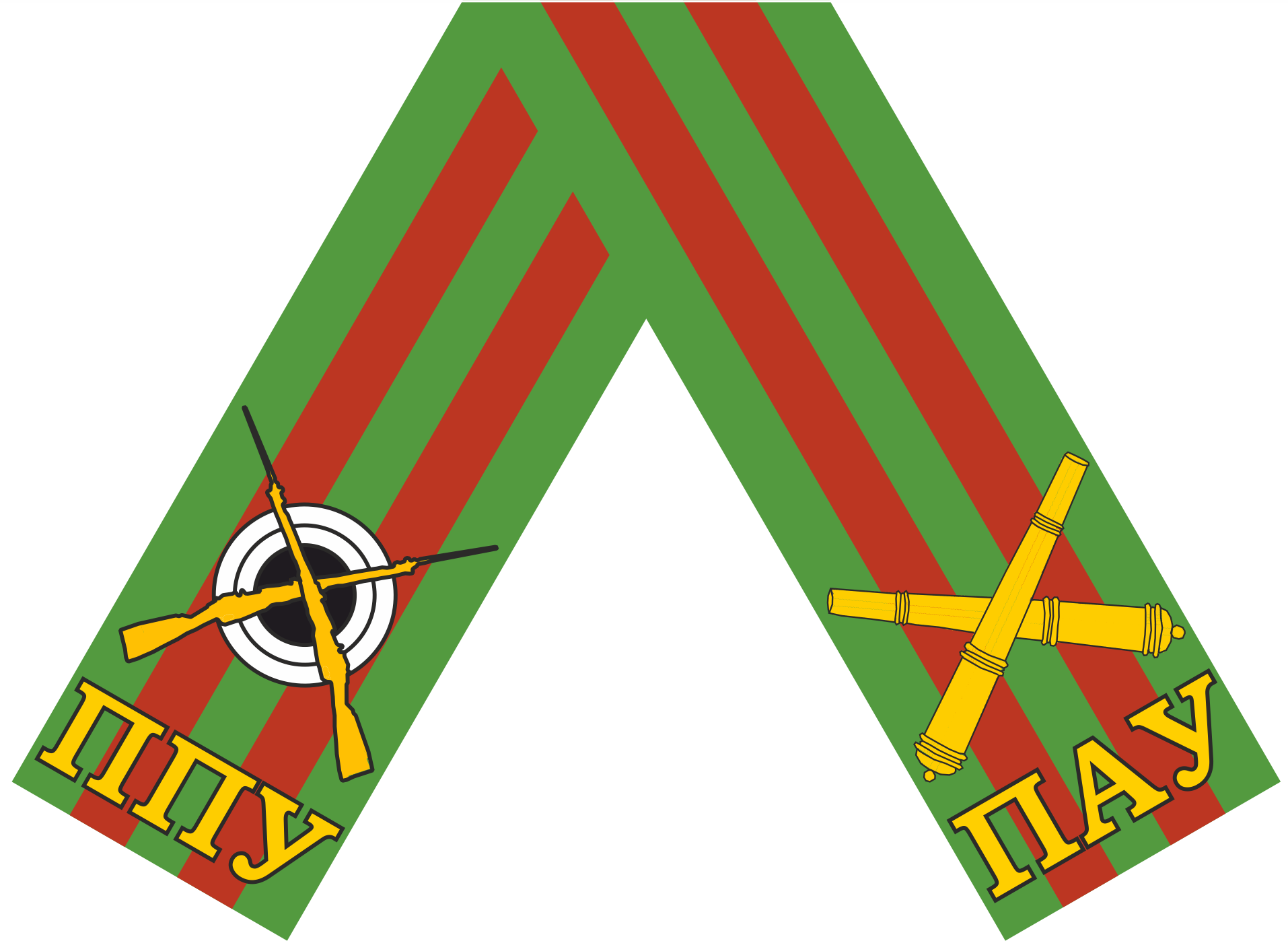 Kusant’s ribbon (general view), of the Podolsk infantry school and the Poldolsk artillery school.